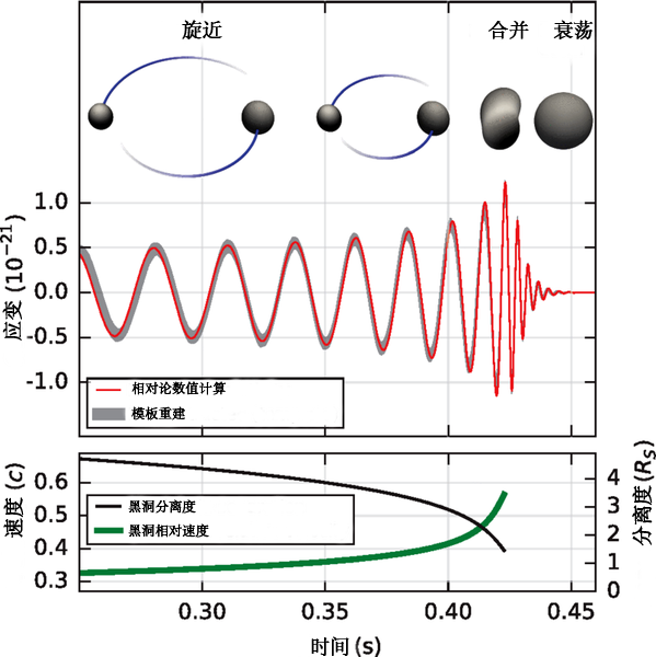 Top: Estimated gravitational-wave strain amplitude from GW150914 projected onto H1. This shows the full bandwidth of the waveforms, without the filtering used for Fig. 1. The inset images show numerical relativity models of the black hole horizons as the black holes coalesce. Bottom: The Keplerian effective black hole separation in units of Schwarzschild radii ( RS=2GM/c2) and the effective relative velocity given by the post-Newtonian parameter v/c=(GMπf/c3)1/3, where f is the gravitational-wave frequency calculated with numerical relativity and M is the total mass (value from Table I).